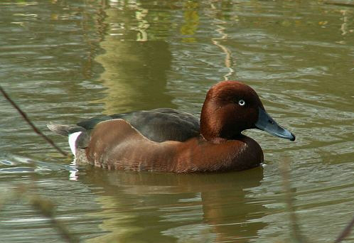 Aythya nyroca drake, Bulgaria.